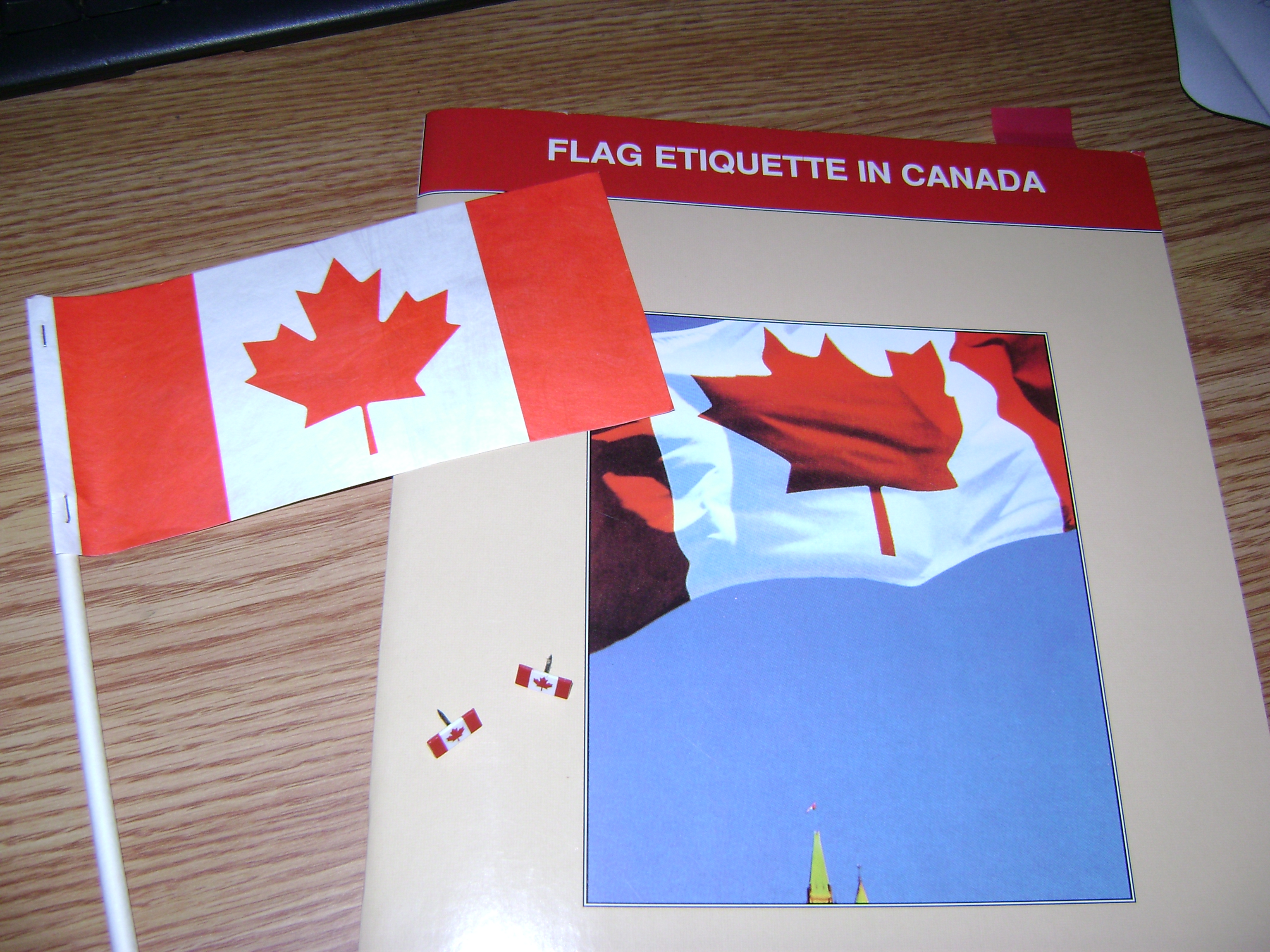 Items from the Canadian Parliamentary Flag Program, including a flag, book and pins